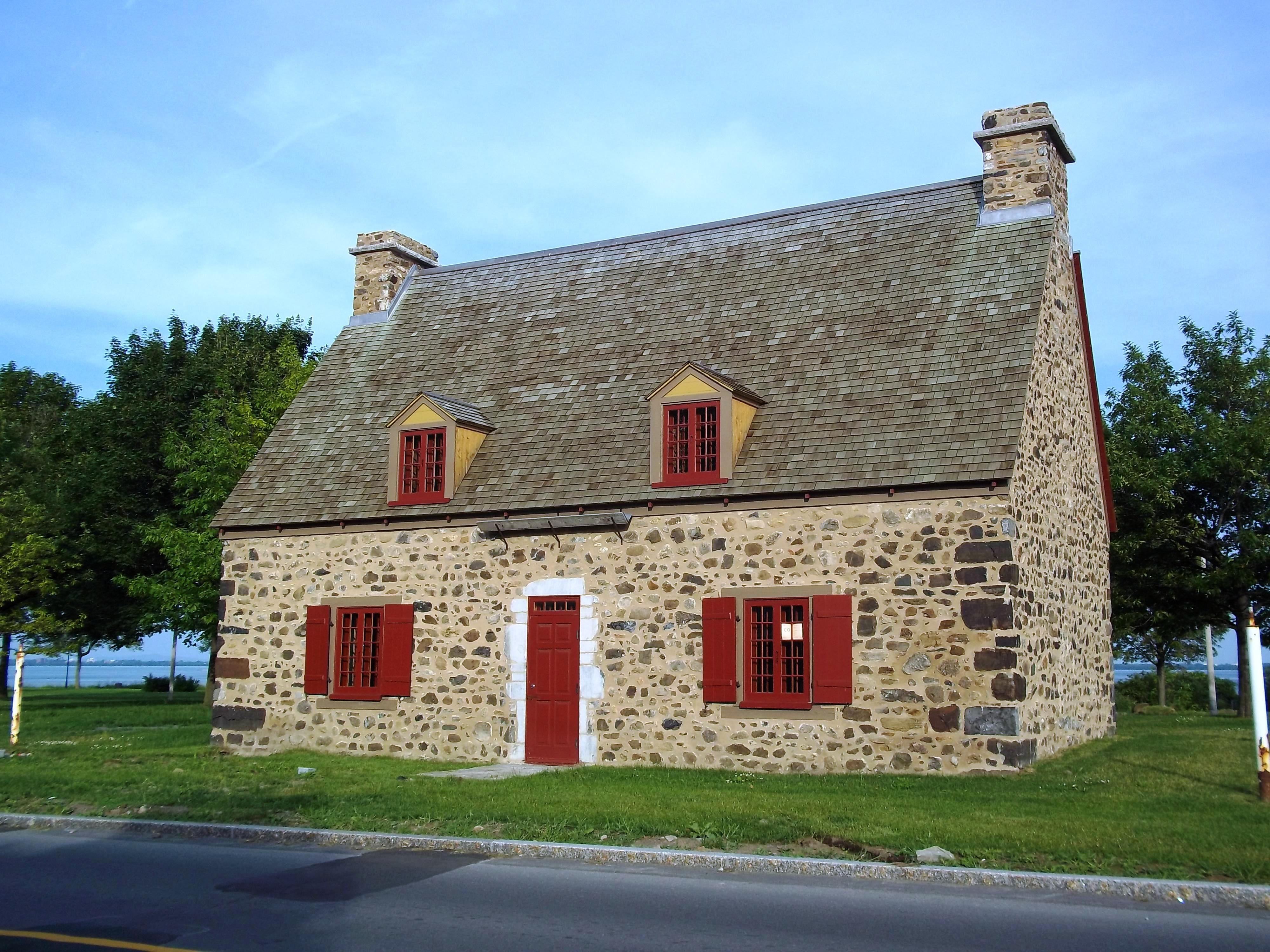 Nivard-De Saint-Dizier House, 7244, LaSalle Boulevard, Borough Verdun, Montreal, Quebec, Canada.